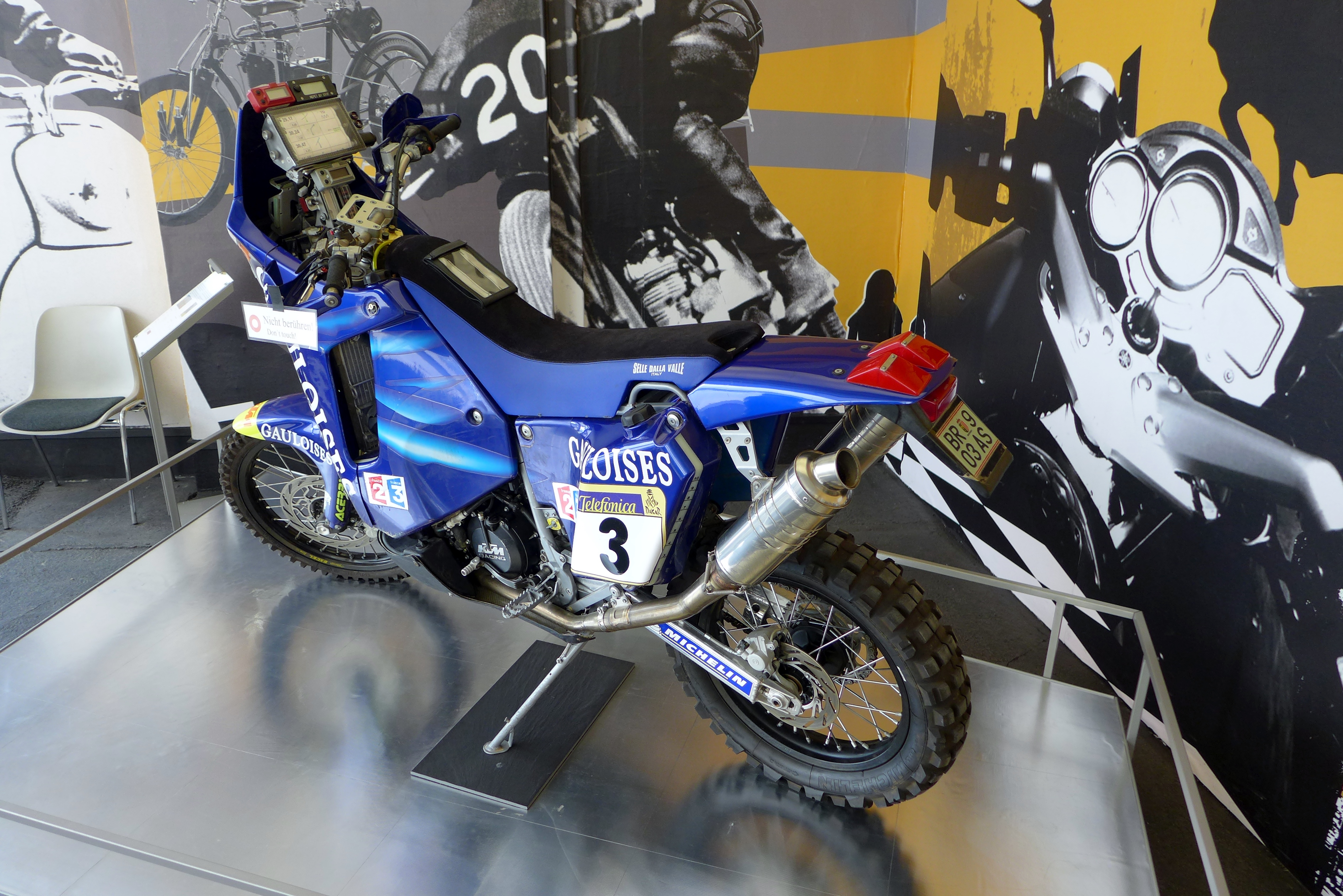 View of the KTM 660 Rally ridden by Richard Sainct to victory in the motorcycle section of the 2003 Dakar Rally, on display at the Erfolgsgeschichte des Automobils & Motorradausstellung at Kaiser-Franz-Josefs-Höhe, on the Großglockner-Hochalpenstraße, Carinthia, Austria.